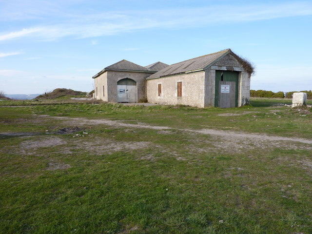 Dismantled Railway Track by Derelict Engine Shed The Grade II Listed Old Engine Shed is visible next to the top of the Admiralty incline, down which stone used in the construction of the harbour breakwater was transported. Sadly it is not possible to follow this line beyond the bottom of the hill (or the corresponding part of the old railway line) as the land at the foot of the incline is owned by Portland Port and is not accessible.